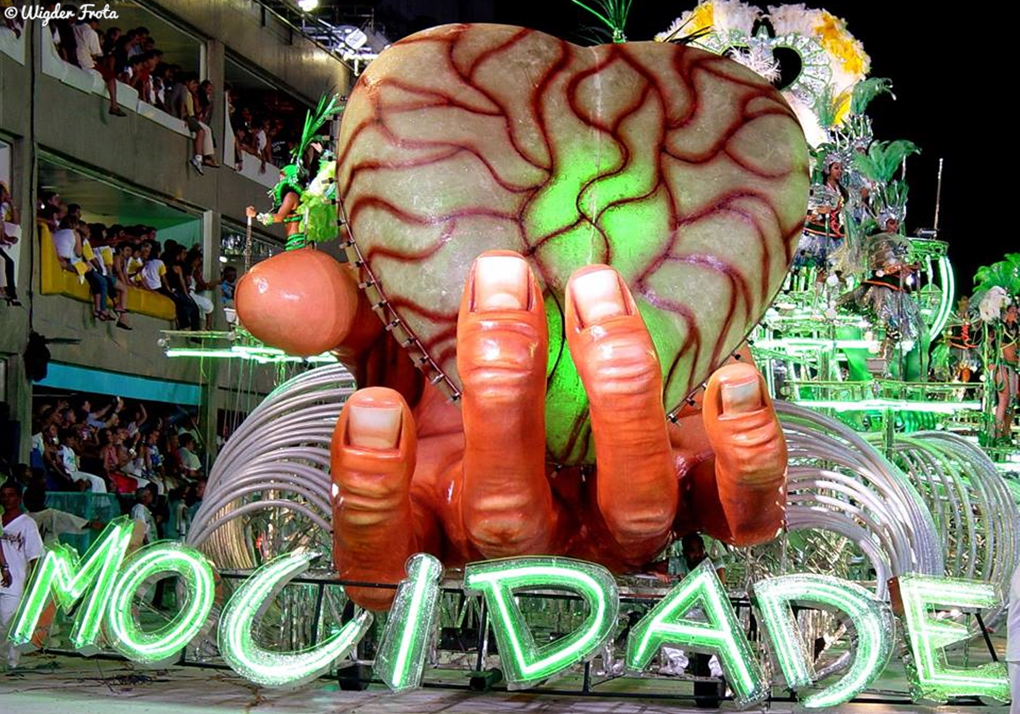 From the Series "Samba Schools, Rio de Janeiro" Carnival 2003 Photo: Wigder Frota